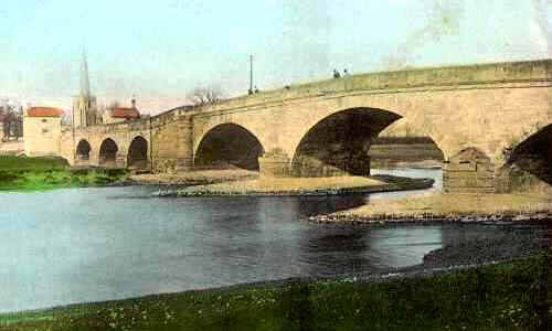 Harrington Bridge crosses the River Trent near Sawley in Derbyshire carrying the B6540 into Leicestershire. Cut down from a postcard labelled Sawley.